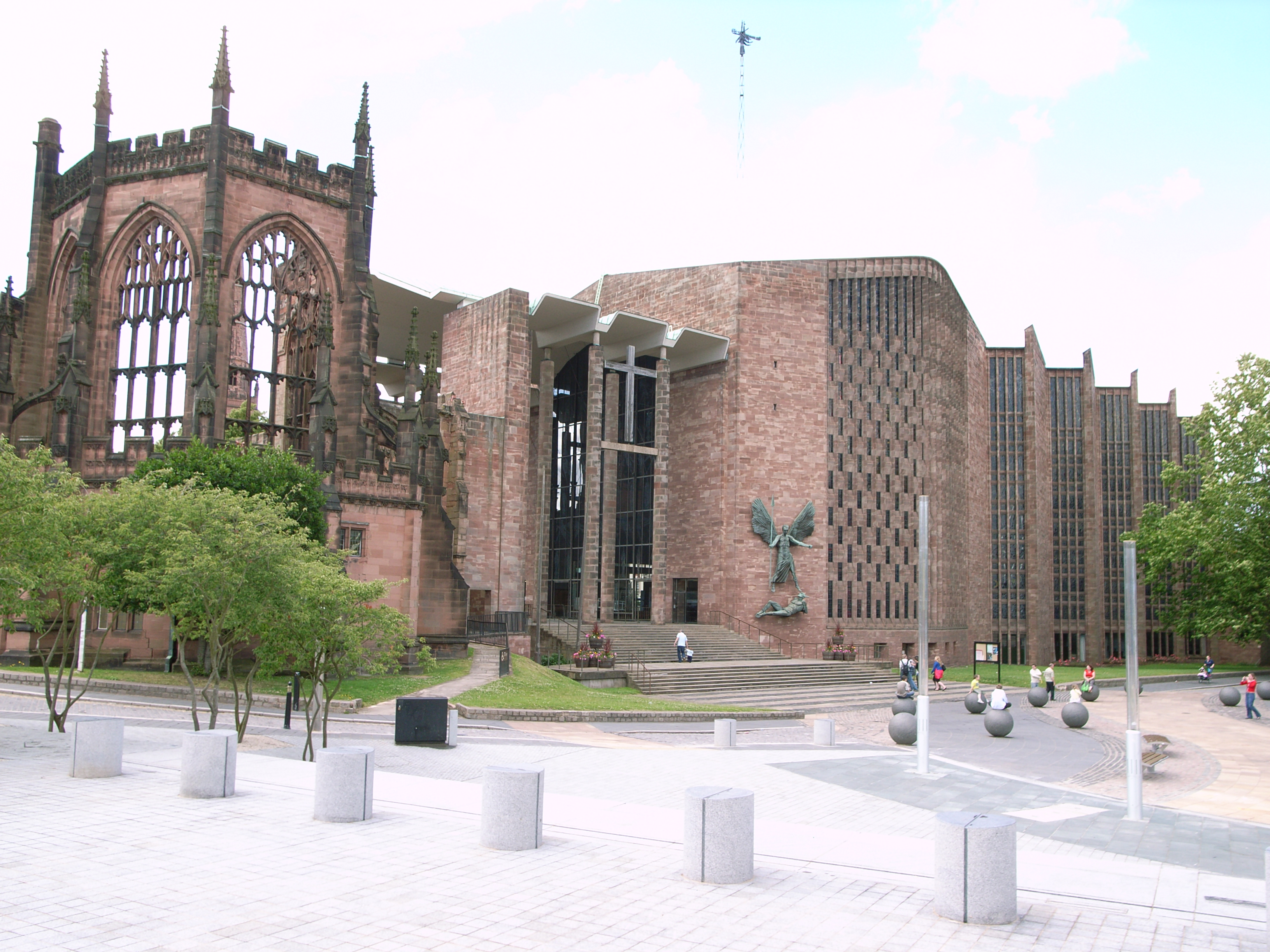 Coventry Cathedral. To the left are the ruins of the old cathedral that was bombed during the second world war, with Basil Spence's modern building to the right.